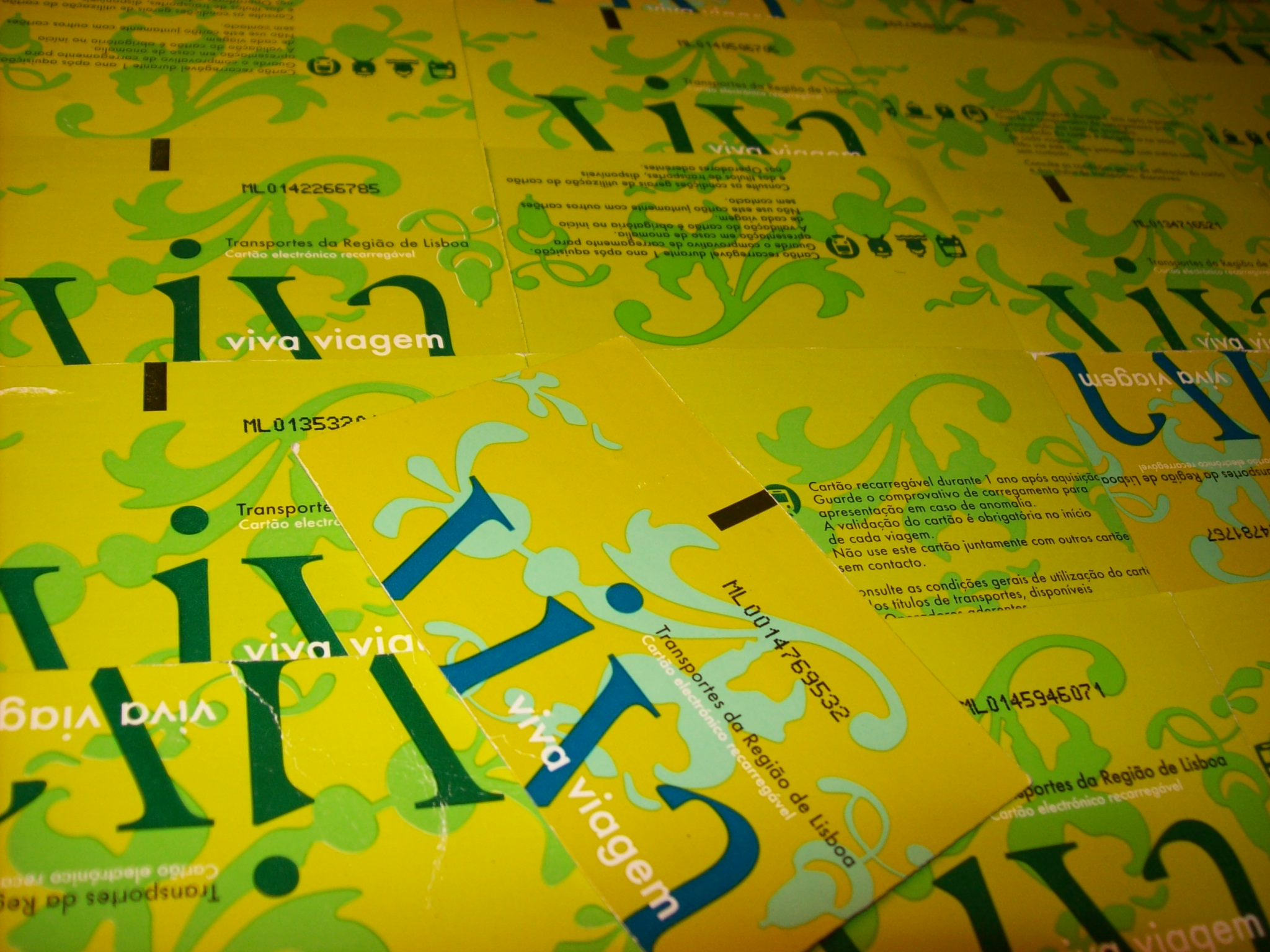 An assortment of LisboaViva rechargeable bus tickets, that can be used thoughout most of Lisbon's transport system.